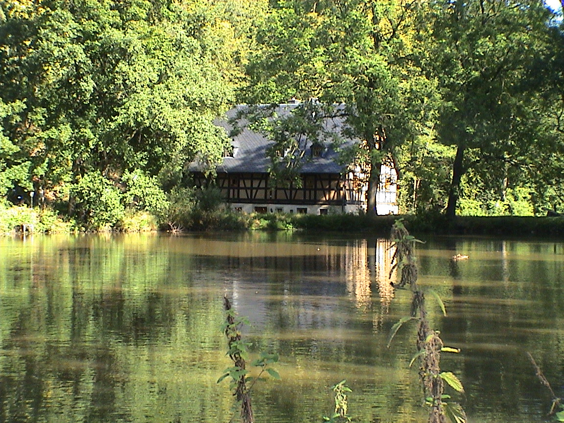 village pond in "Blankenhain"